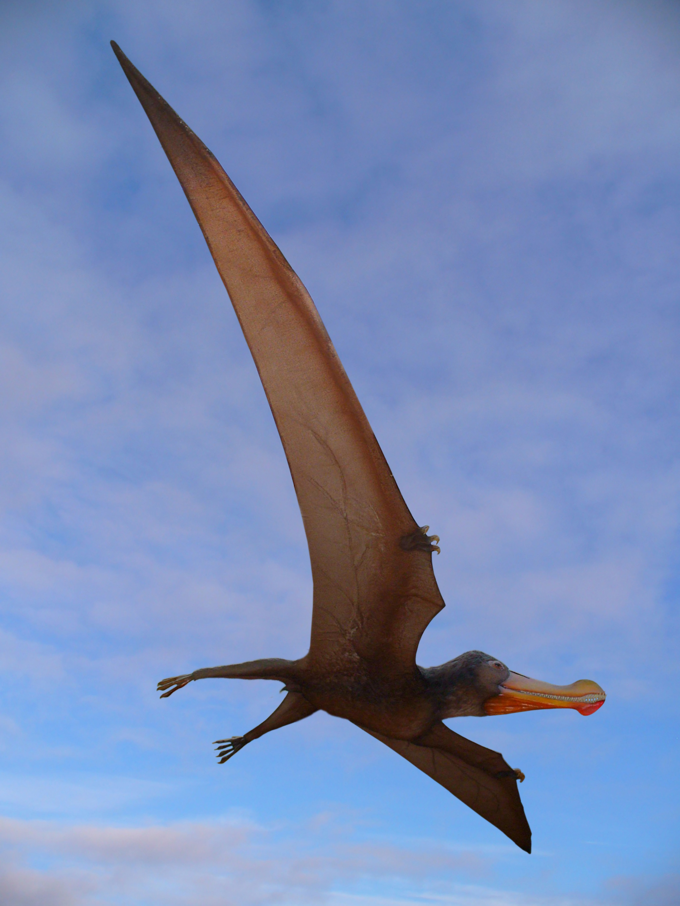 Ornithocheirus robustus (Syn. Tropeognathus robustus), Ornithocheiridae; Model in life size with a wingspan of 6 meters based on fossils from northeast Brazil; Staatliches Museum für Naturkunde Karlsruhe, Germany. Backgroud changed.